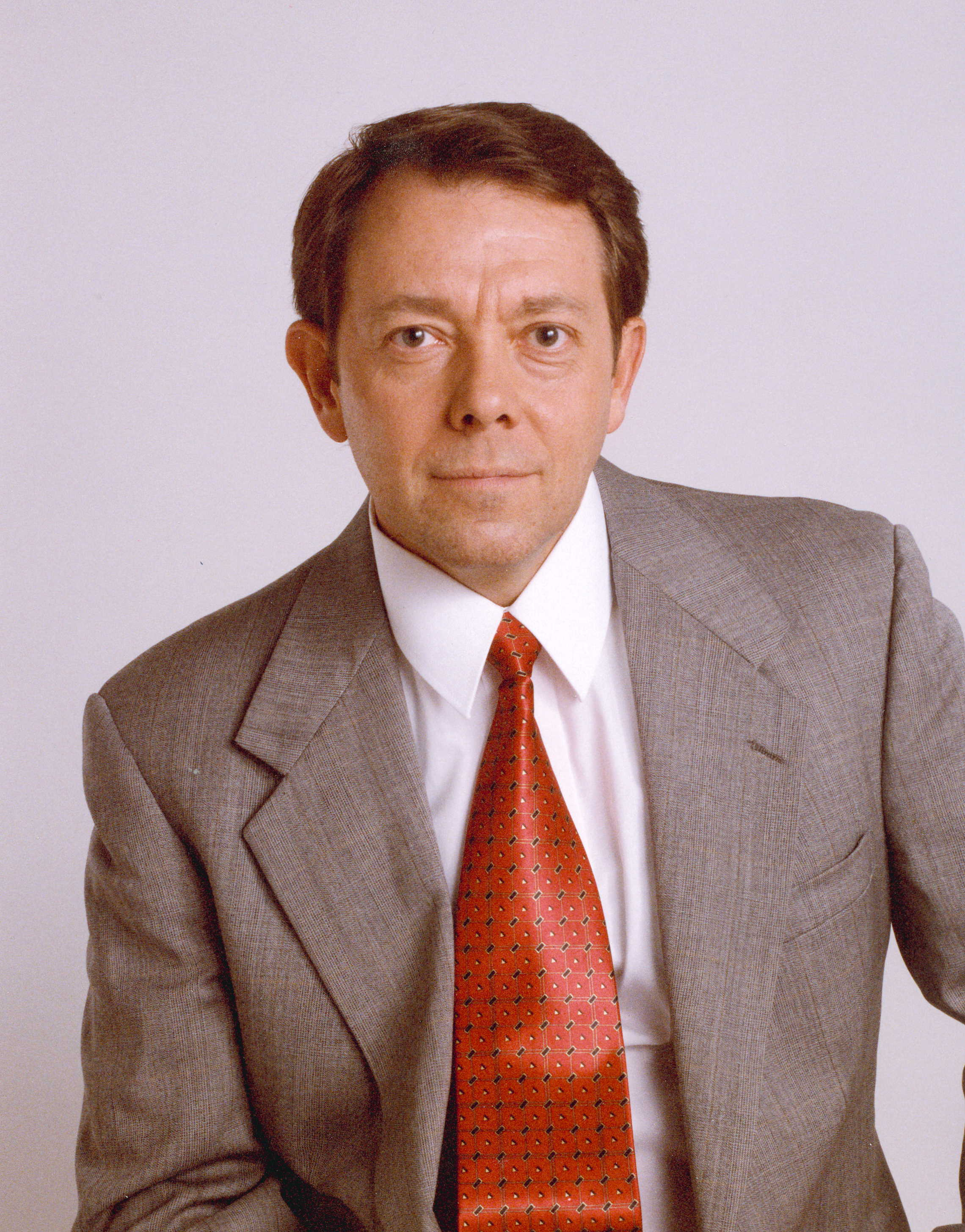 Photograph of Larry L. Richman